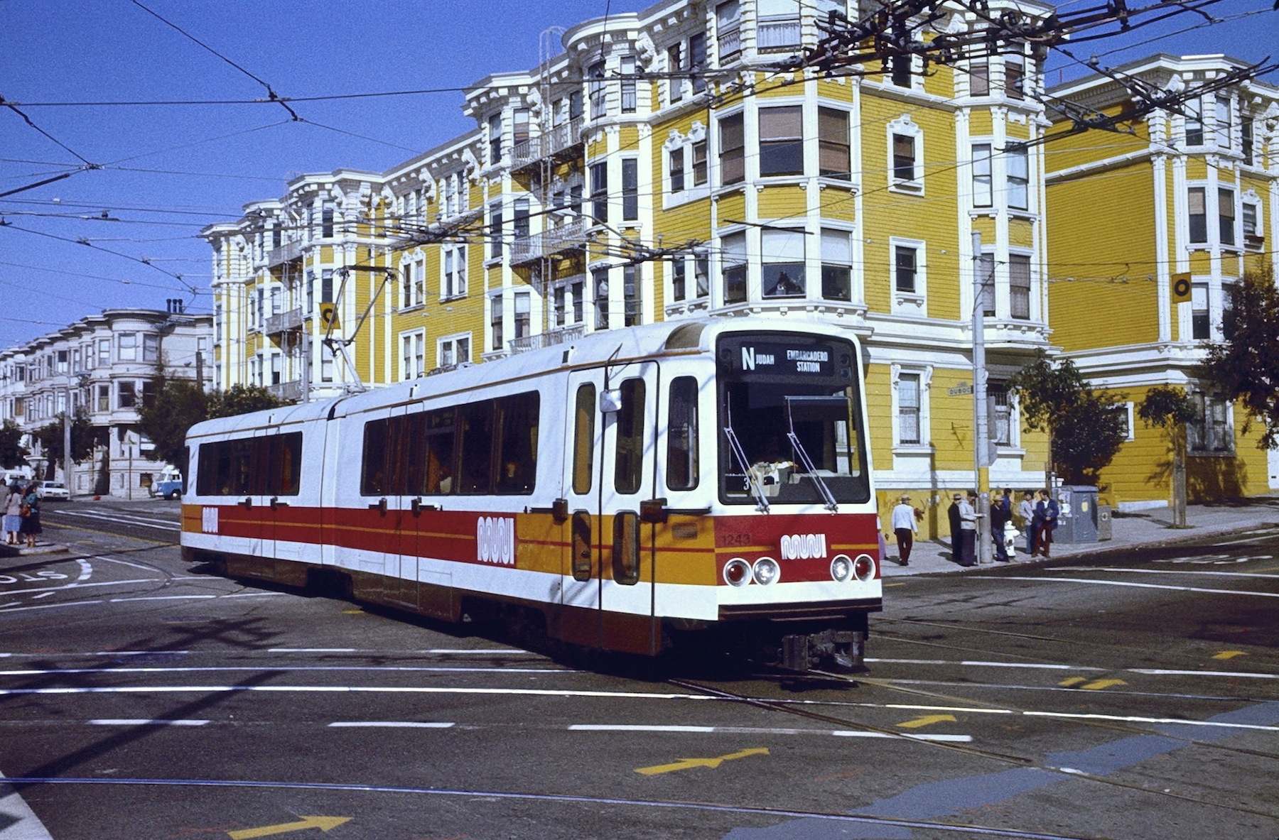 San Francisco Muni LRV (Light Rail Vehicle) 1243, built in 1979 by Boeing, is eastbound on Duboce Avenue at Church Street, on the N-Judah line, on March 24, 1980. As its rollsign shows, it was en route to Embarcadero Station, through the then-new "Muni Metro" light-rail subway, the portal to which (for routes J and N) is located just behind the photographer. At the time of the photo, the Muni Metro had opened for passenger service only five weeks earlier (on February 18, 1980), and the N-line was the only line using it (and using it on weekdays only). All four other streetcar/tram routes were still using PCC cars at all times and running on the surface of Market Street through downtown. Although the Muni Metro did not open until 1980, the Boeing LRVs had first run in service in April 1979, on a K-line shuttle service operating only on the outer portion of that line. The tracks in the foreground were for the J-Church line, and car 1243 was also crossing trolleybus wires for route 22-Fillmore.